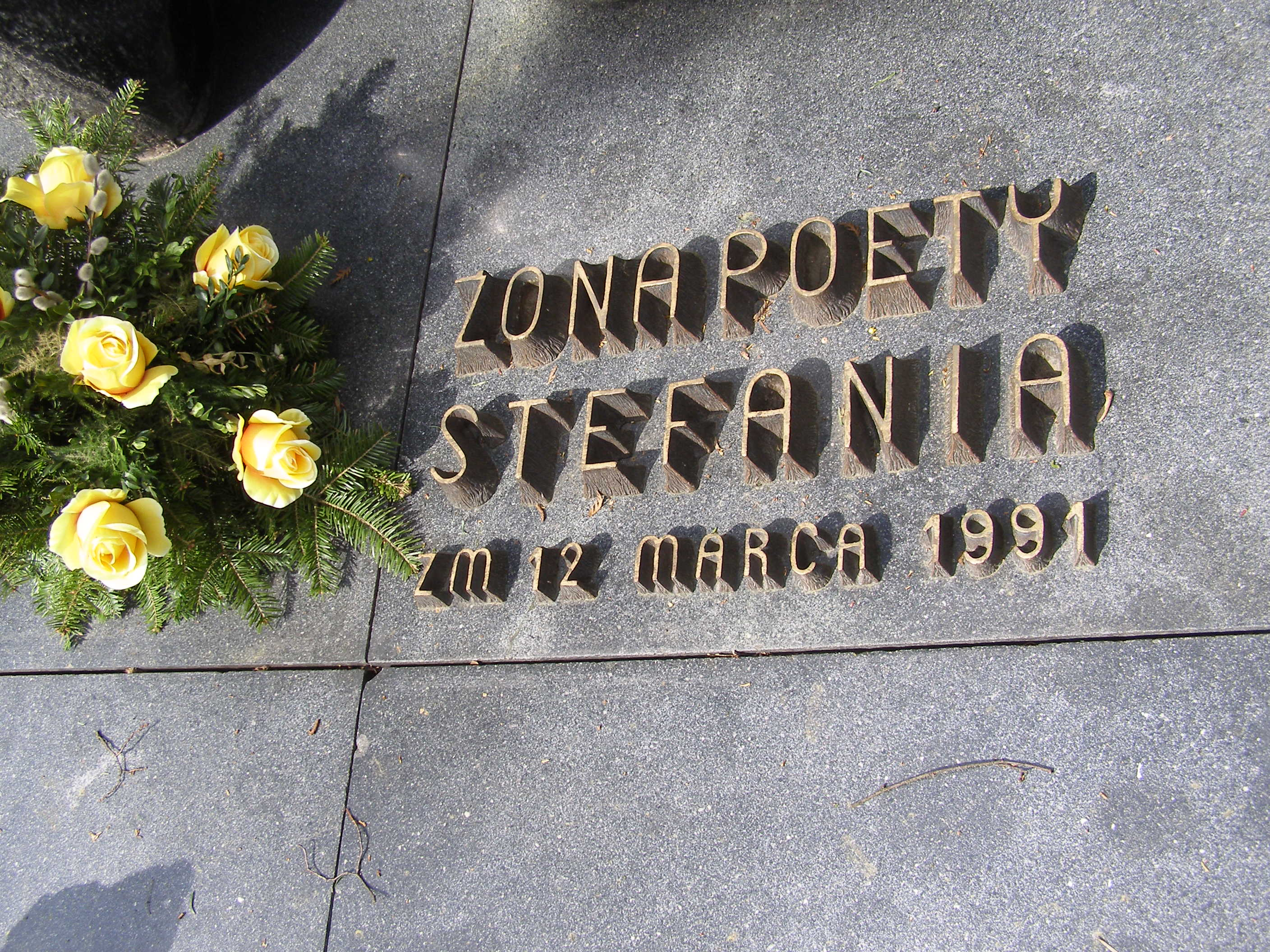 Gravestone of Stefania Tuwim